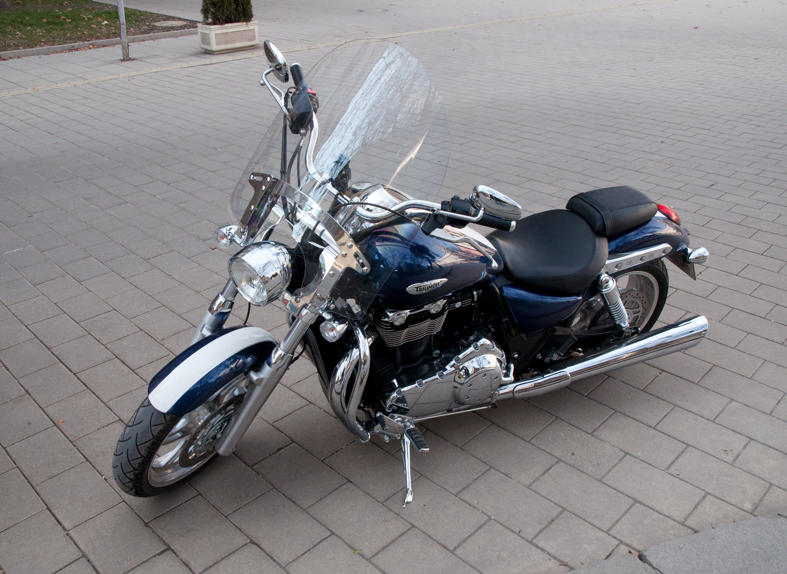 Triumph Thunderbird 1600 introduced by Triumph Motorcycles Ltd in 2009.